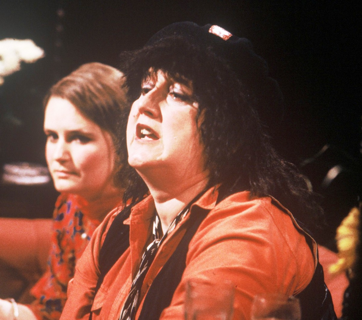 Roz Kaveney appearing on After Dark on 21 May 1988. Other guests included Andrea Dworkin, Anthony Burgess, Jim Haynes and Julia Ronder (in background). More here.